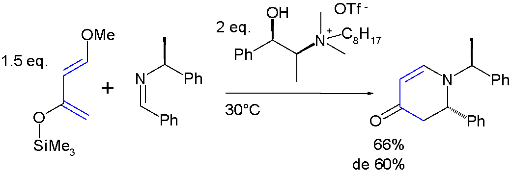 AzaDA_DanishefskyDiene